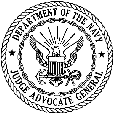 Seal of the Judge Advocate General of the Department of the Navy.